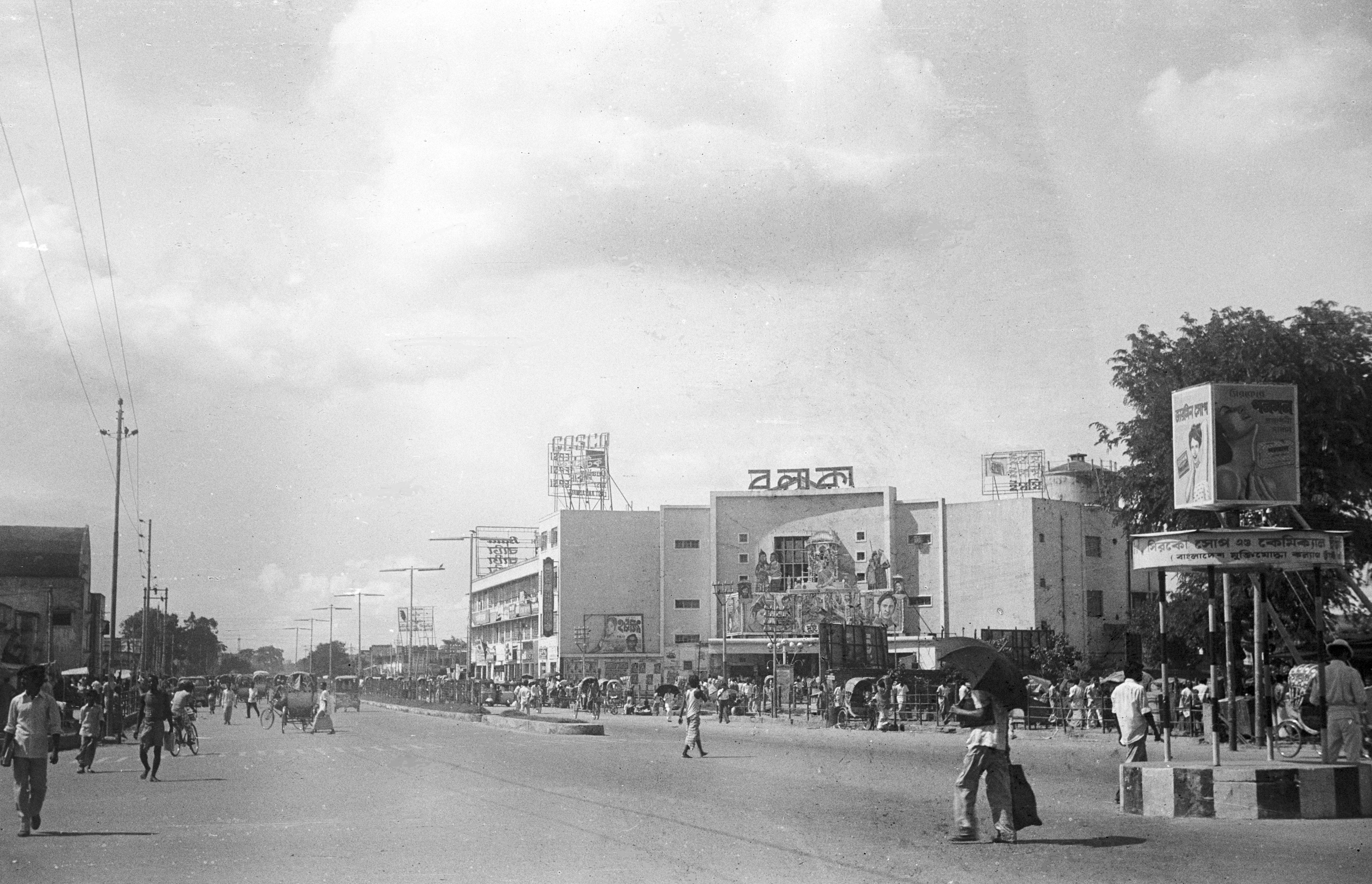 Junction of Mirpur Road and Nilkhet Road in Dhaka, Bangladesh, with Balaka cinema hall in the background.